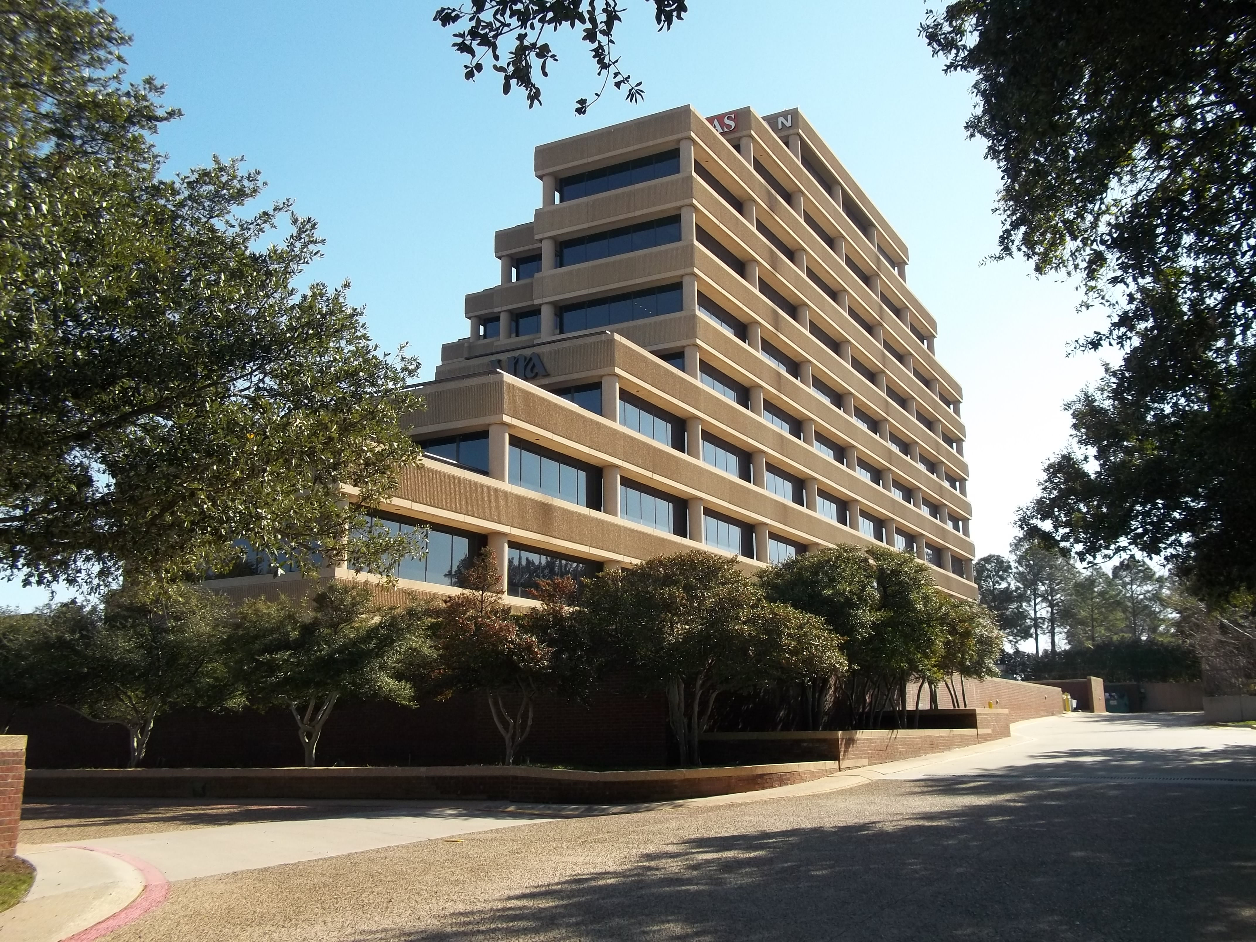 An exterior shot of the building housing the Univ. of Texas at Dallas' Center for Vital Longevity.